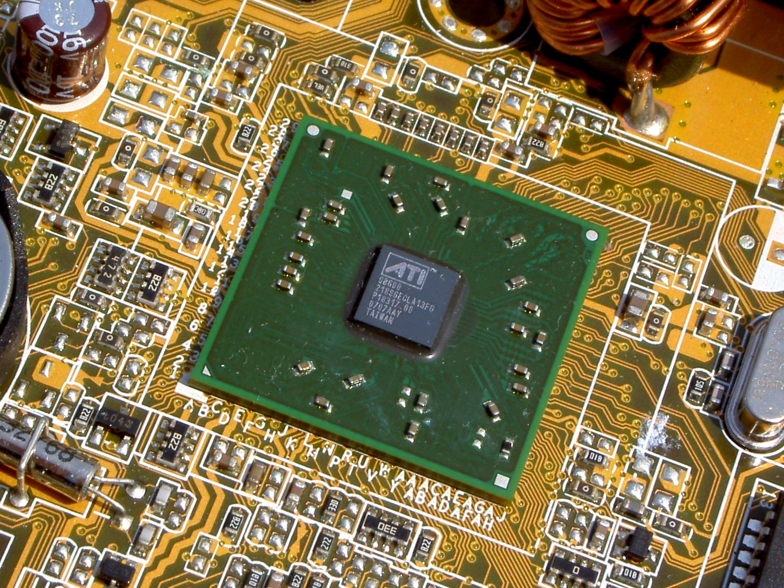 AMD (ATi) SB600 South Bridge.